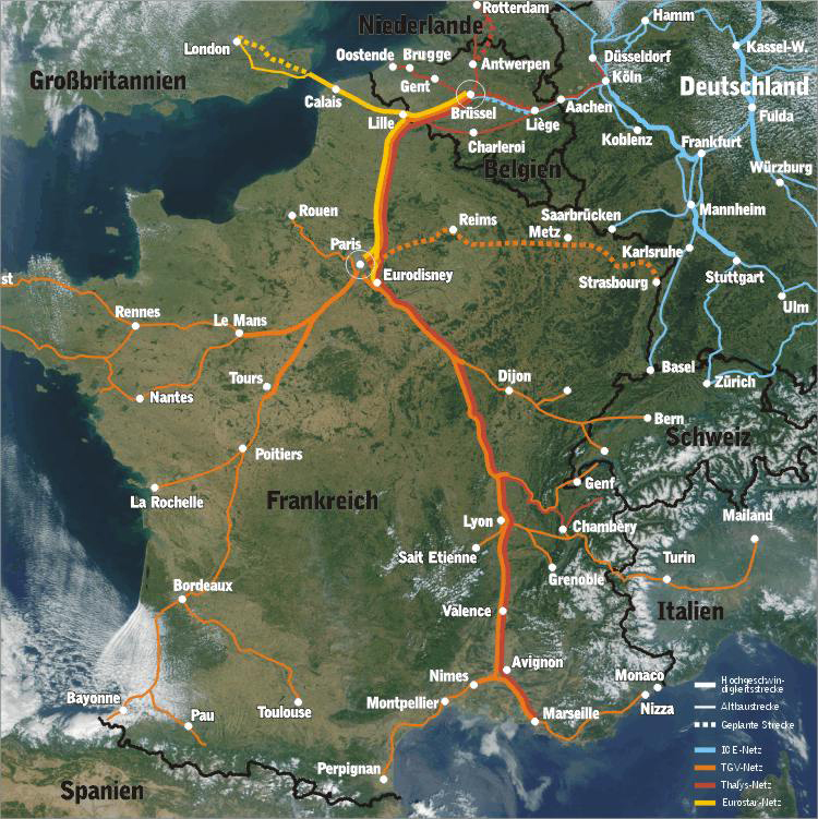 High Speed railway network in Europe (TGV). (incomplete!)